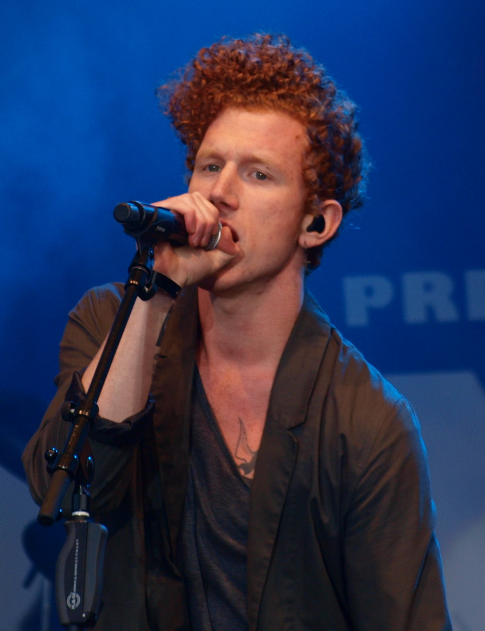 Erik Hassle at Rix FM Festival in Kungsträdgården, Stockholm.